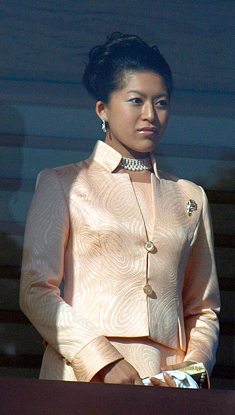 Princess Tsuguko appeared the "Visit of the General Public to the Palace for the New Year Greeting" at the Tokyo Imperial Palace in Chiyoda Ward, Tōkyō Metropolis on January 2, 2011.